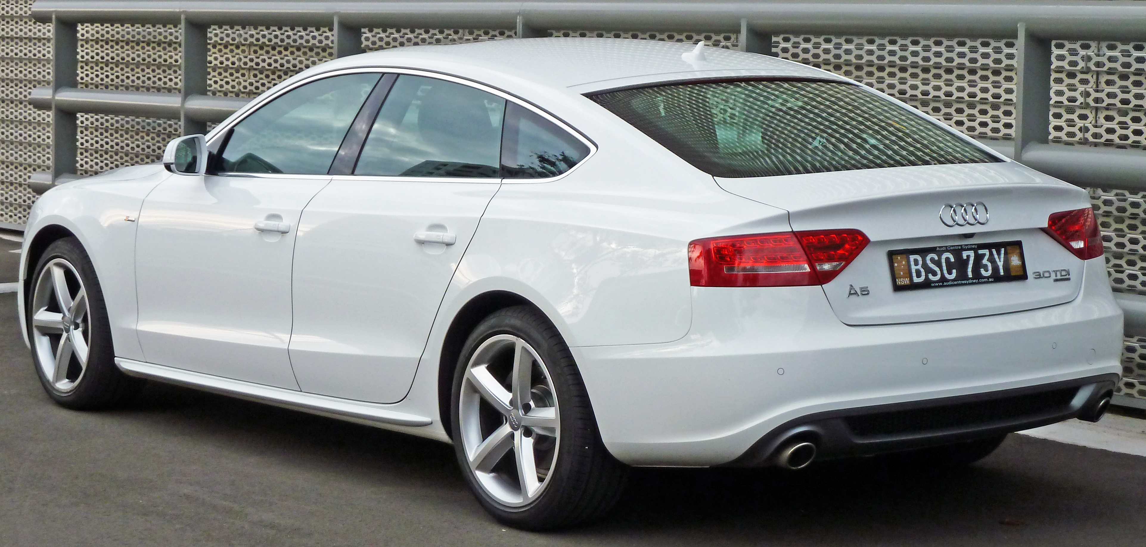 2010 Audi A5 (8T) 3.0 TDI quattro Sportback. Photographed at the Audi Centre Sydney, Zetland, New South Wales, Australia.